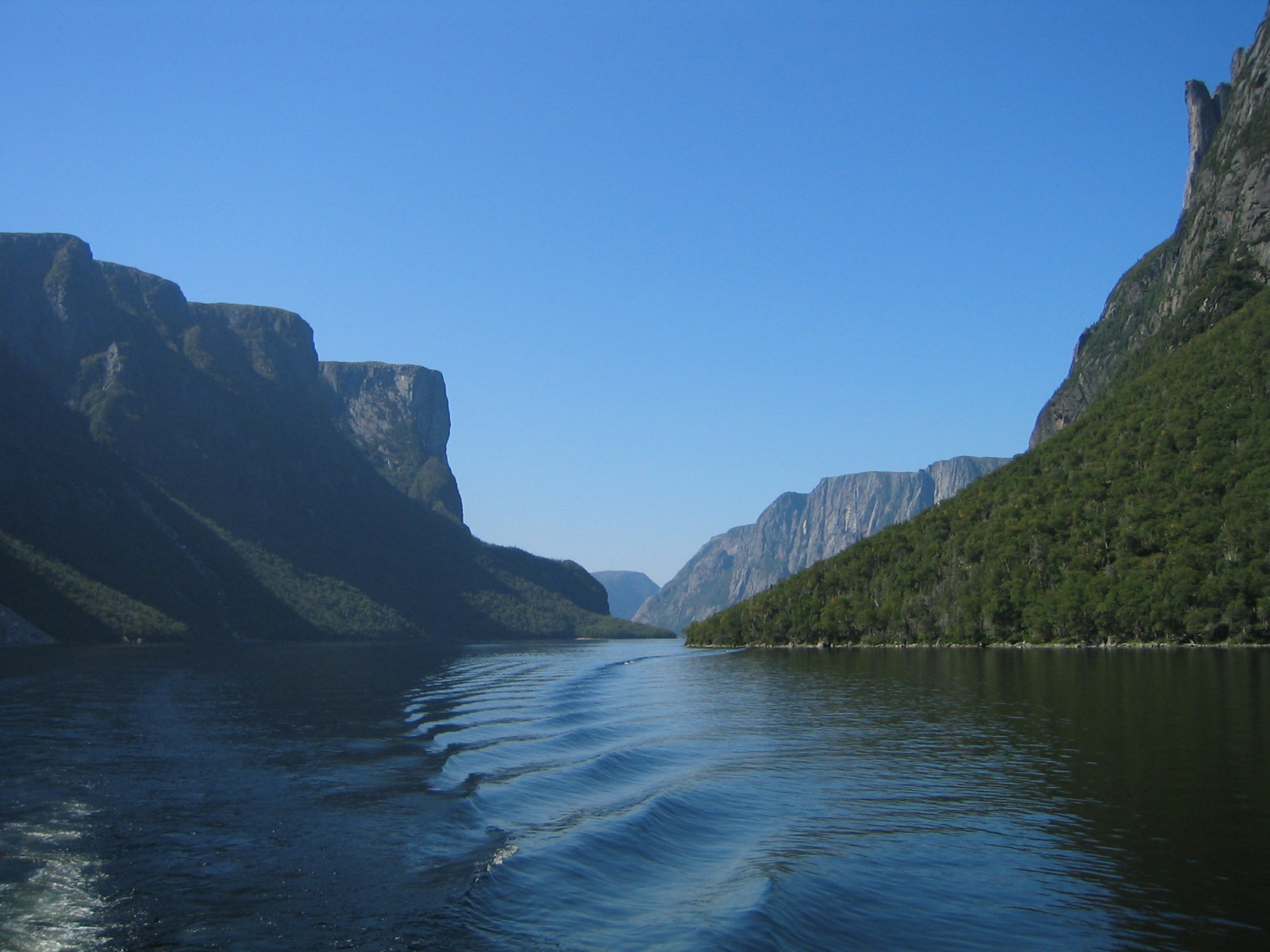 Western Brook Pond, Gros Morne National Park, Newfoundland